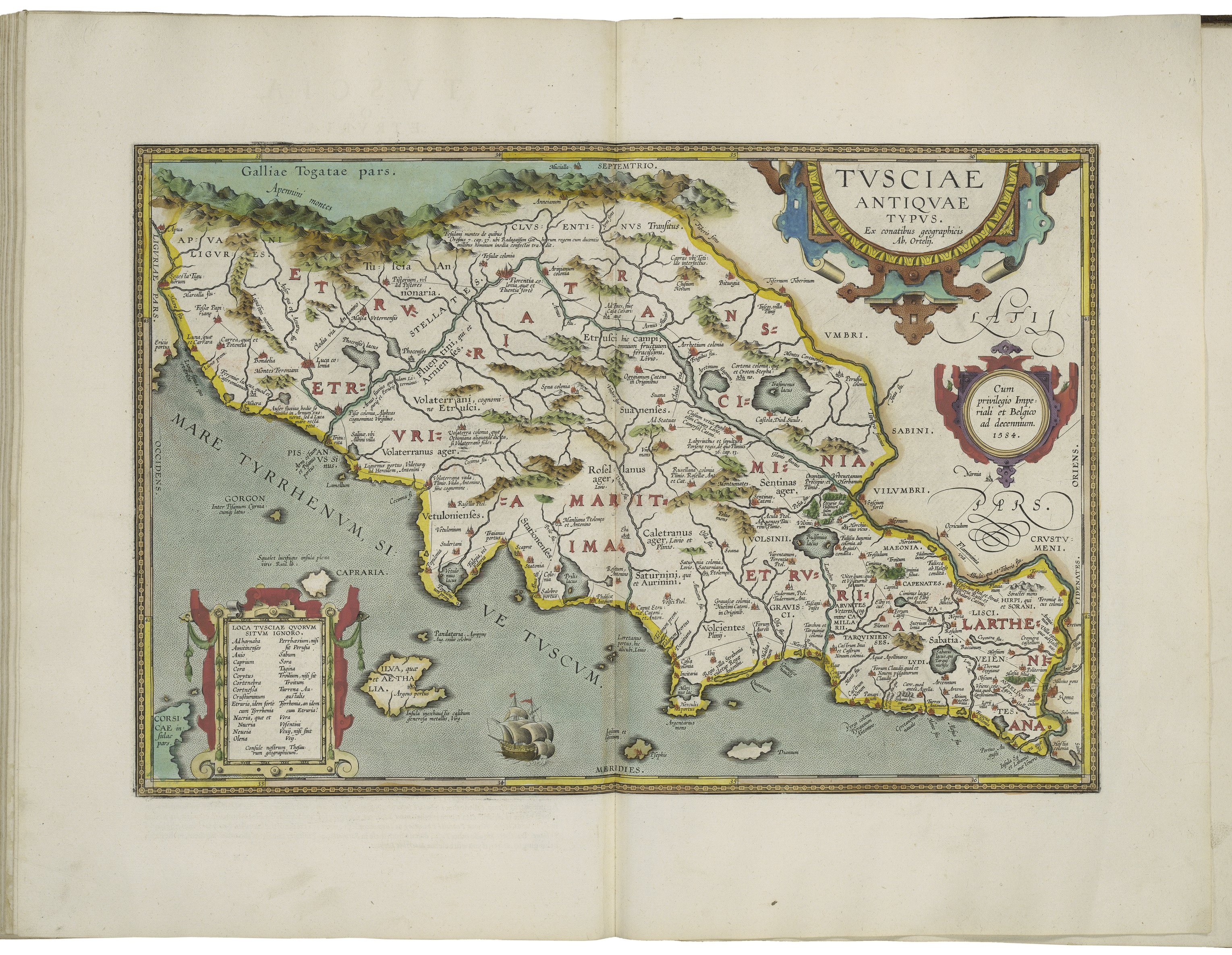 Map of ancient Tuscia by Abraham Ortelius. Theatrum Orbis Terrarum. London, 1606 (i.e. 1608?). Plate xx.